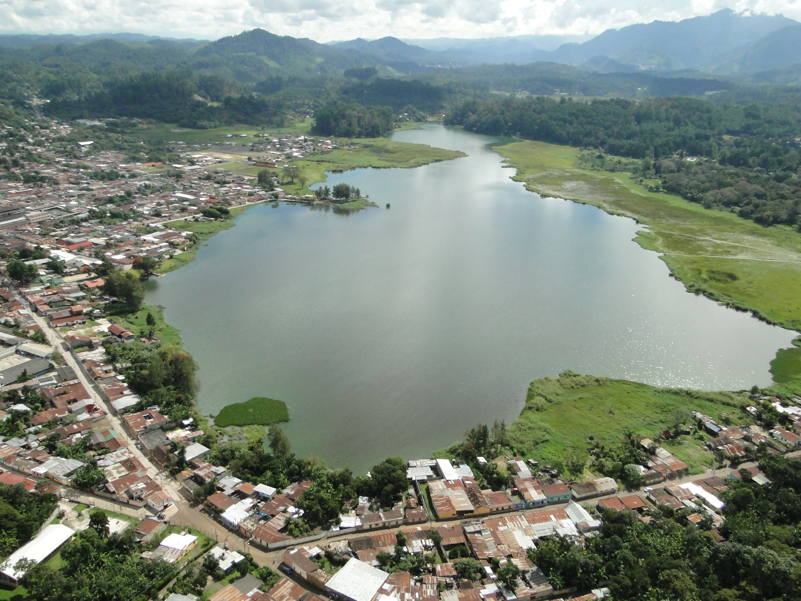 Oblique aerial view of Lake Chichoj